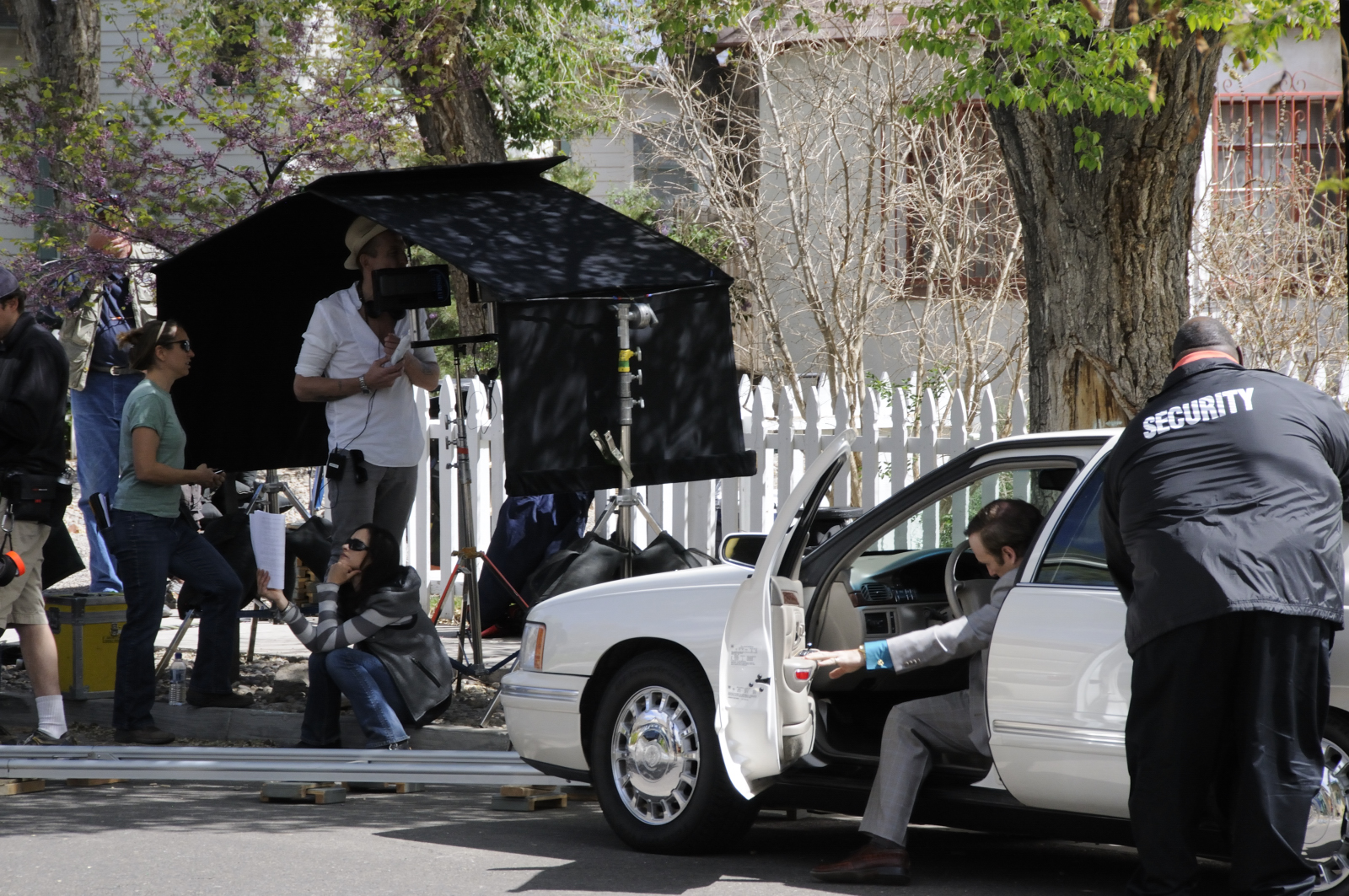 Bob Odenkirk as Saul Goodman and Lavell Crawford as Huell (with "Security" on his back) during shooting of the episode 4x08 Hermanos of Breaking Bad. Director Johan Renck looks on the monitor under the tailing.